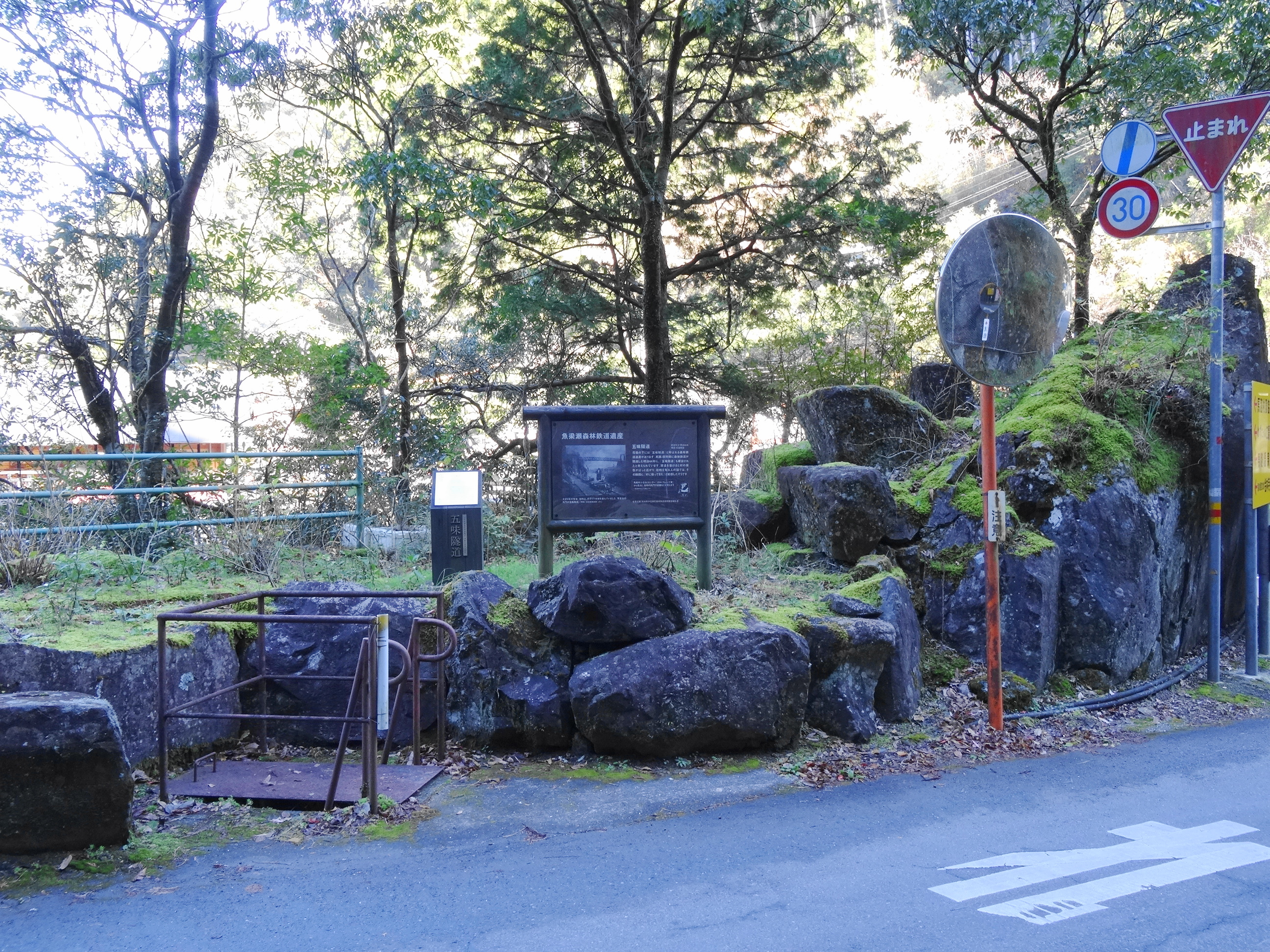 Disused railway of Yanase forest railway